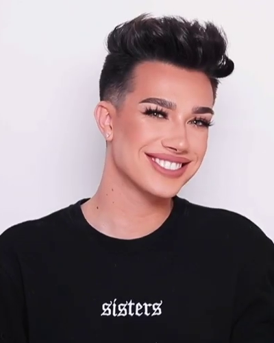 James Charles appearing in Lone Fox's YouTube Video, "DIY CHALLENGE with James Charles!" from July 2019.